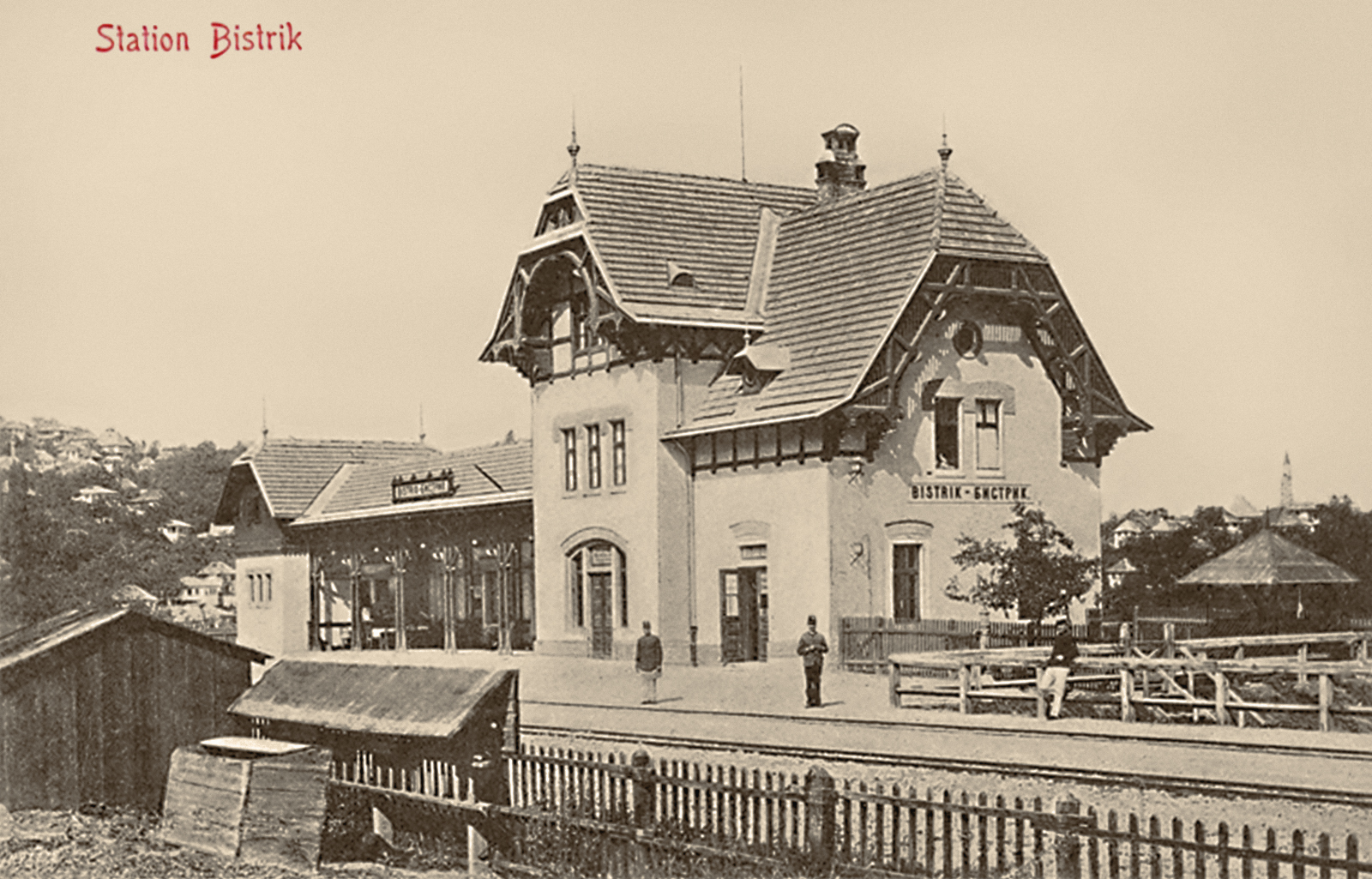 Narrow-gauge railway station Bistrik on the Eastern line Sarajevo (- Vardište) - Uvac